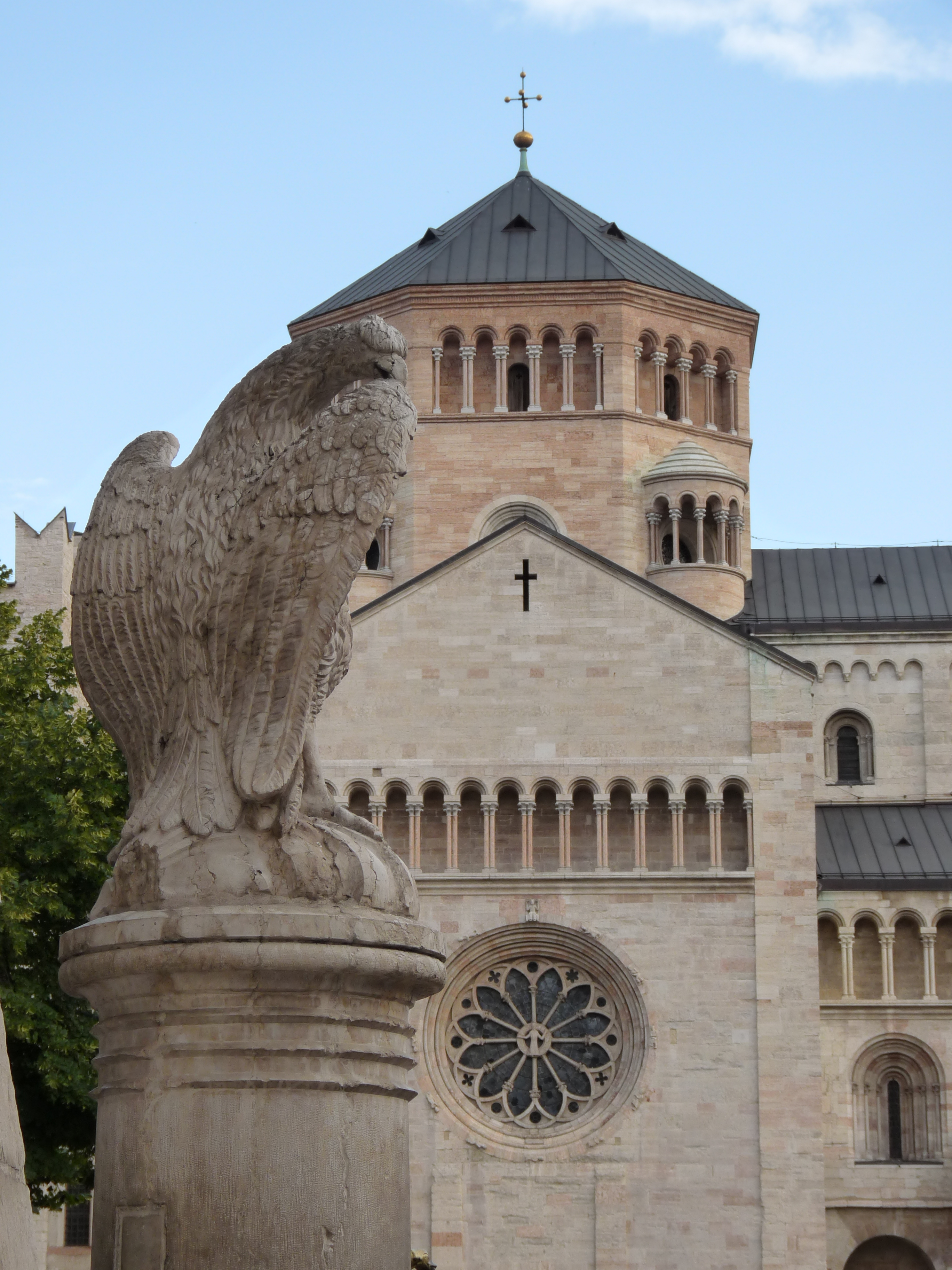 Trento (Italy): fountain of the Eagle in Piazza del Duomo (Stefano Varner, 1850) with the northern transept of the cathedral of Saint Vigilius in the background